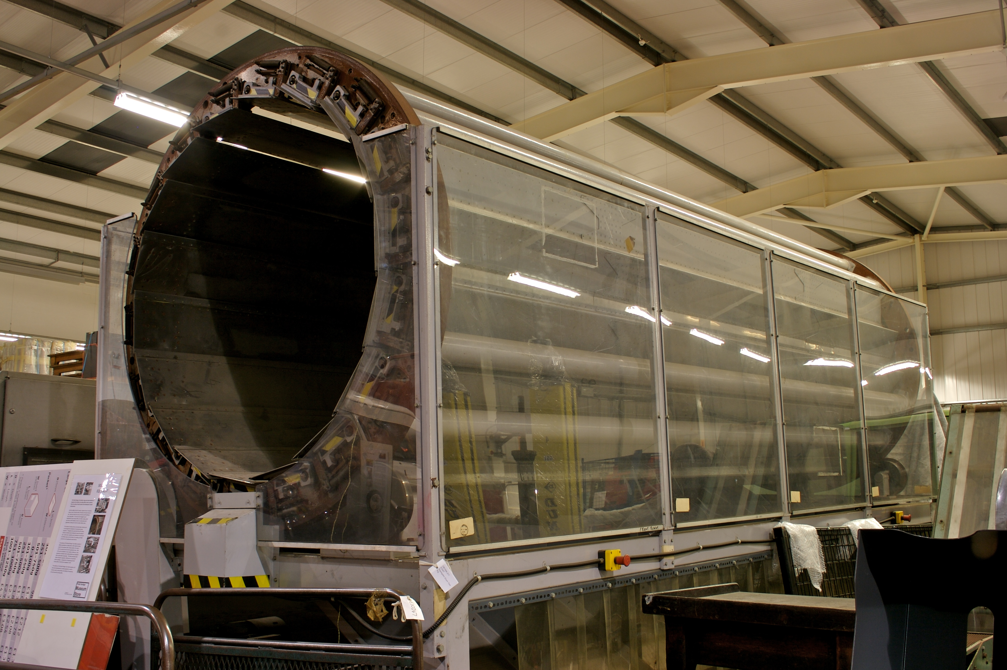 Automated postal sorting equipment, known as the Segragator Drum. Collection ID OB1996.377.